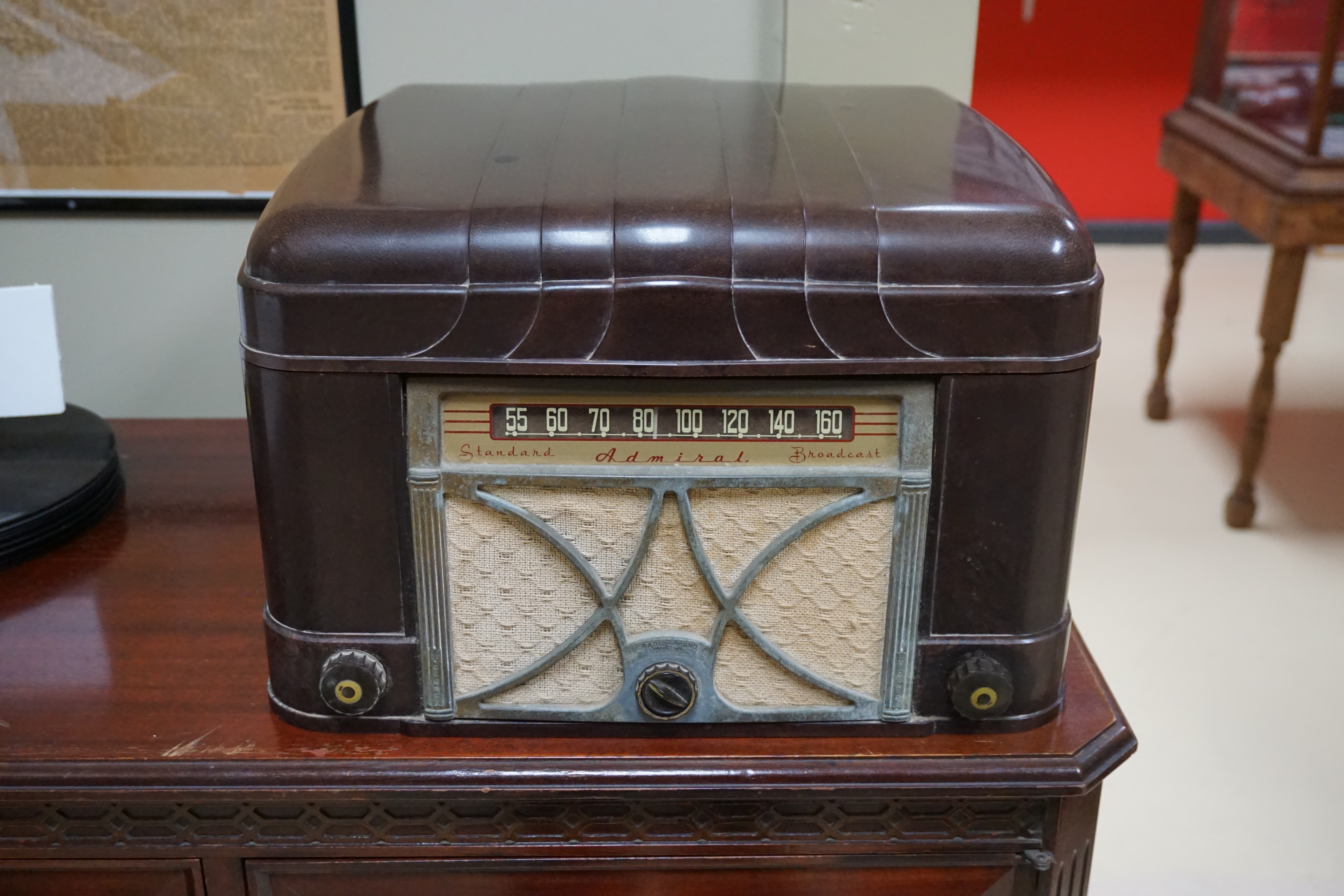 An Admiral radio-phonograph (circa 1950) on display at the Lamar County Historical Museum in Paris, Texas (United States).